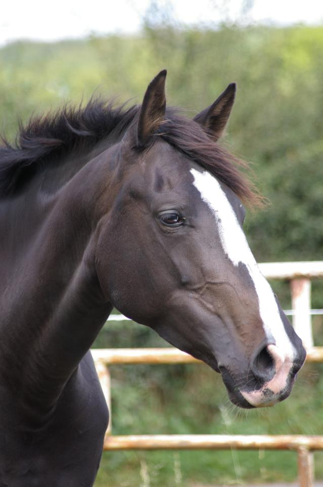 Soirée de Mels, anglo-arabian mare, France